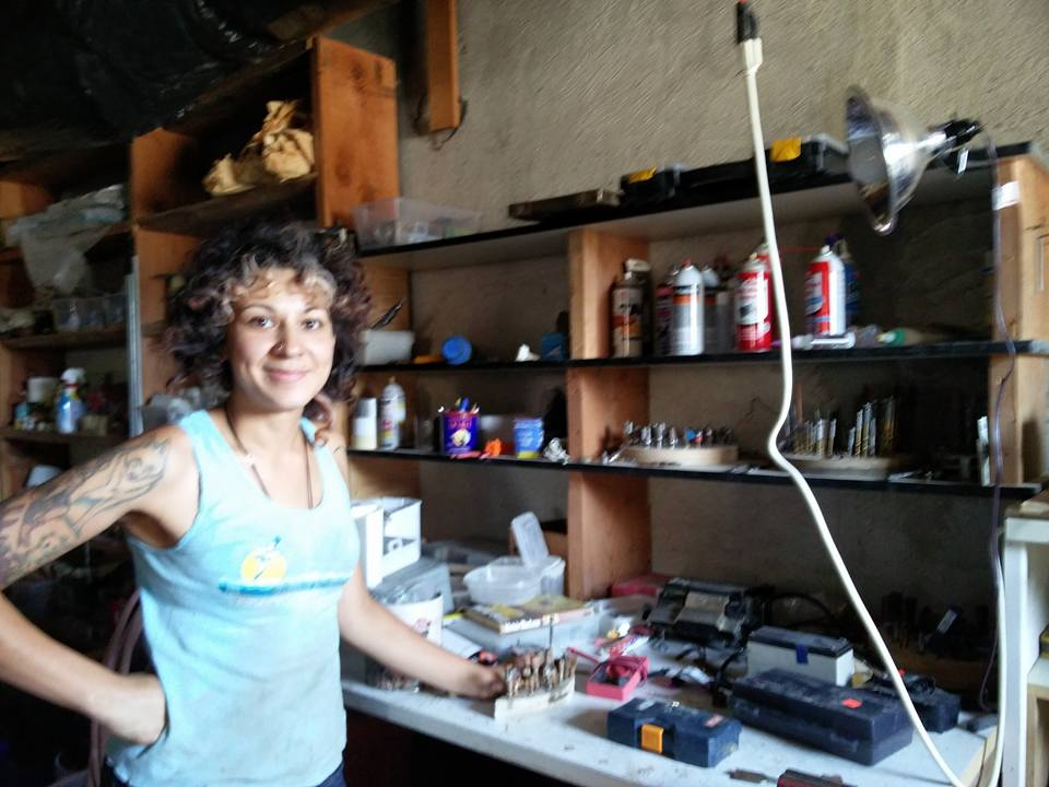 An artist gives a tour of one of the two machine shops in Xanadu, a hackerspace run under the aegis of the Idaho Burner Association in Boise, Idaho. Primarily associated with Burning Man, Xanadu has numerous secondary and tertiary uses such as yoga, sewing, lectures and dance.